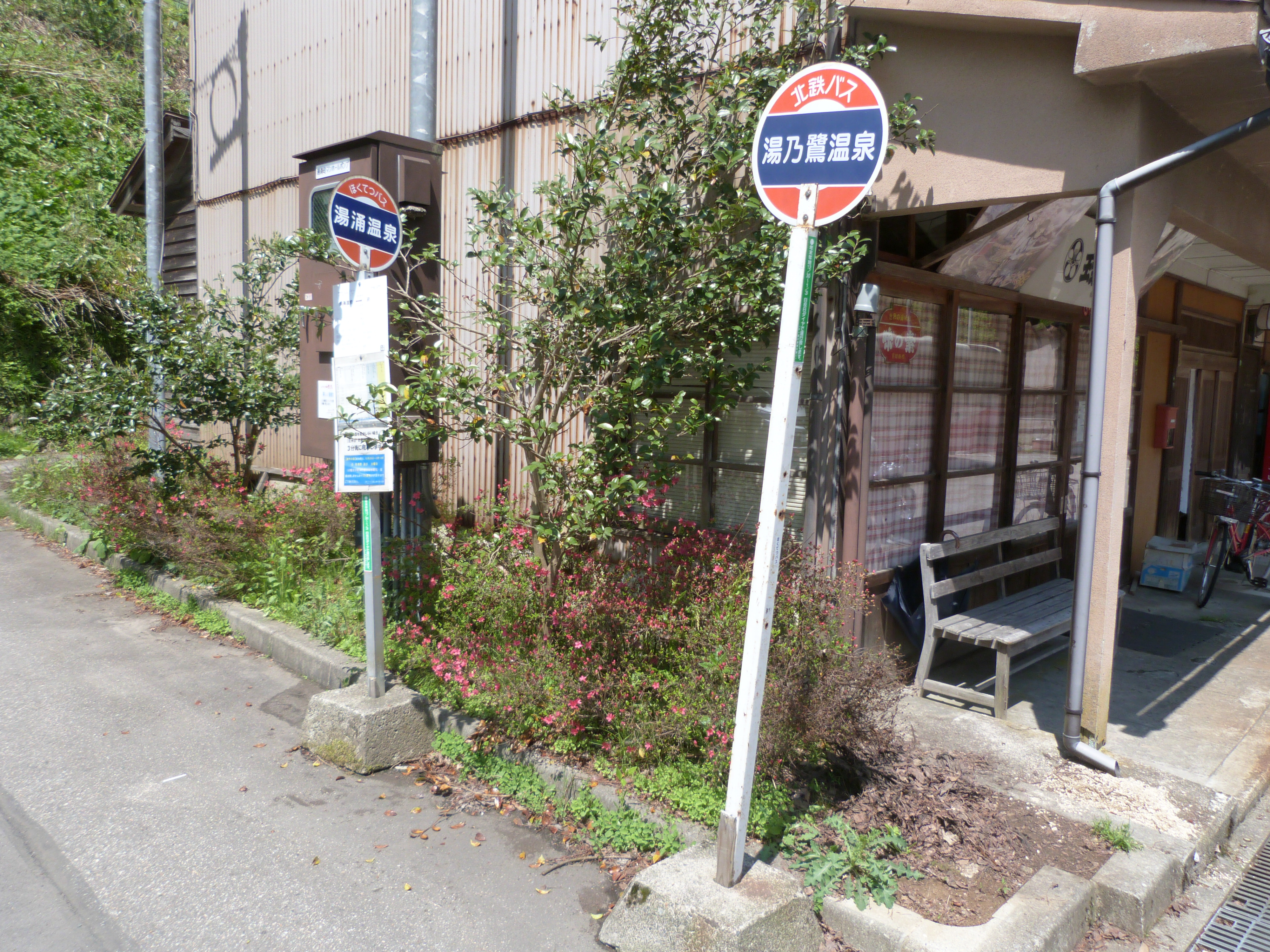 Yunosagi-onsen Bus Stop sign (right) at the Yuwaku-onsen Bus Stop of Hokutetsu Bus